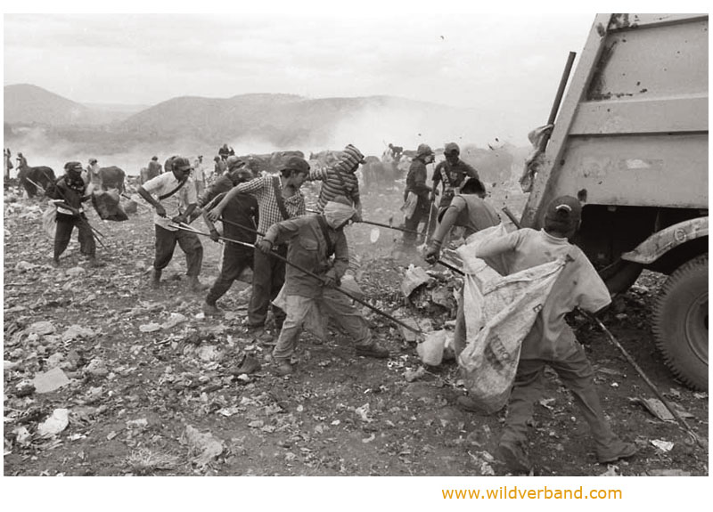 La Chureca, the garbage dump in Managua, Nicaragua